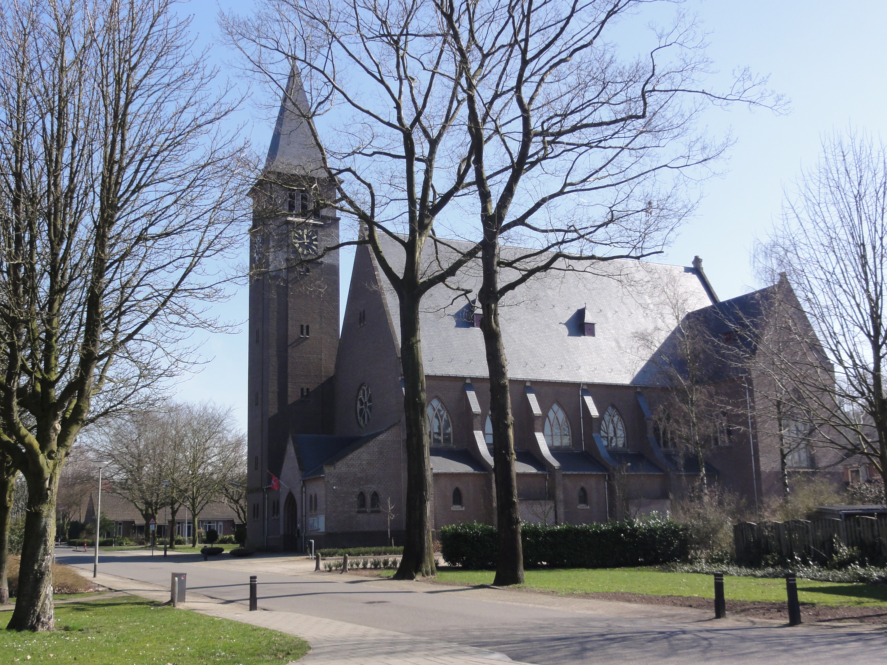 Molenhoek (Mook en Middelaar, Limburg, NL) church, architect Joseph Franssen